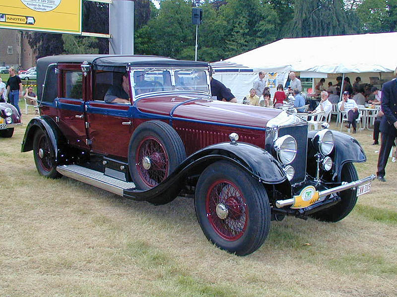 32 HP model powered by a 5952 cc 6-cylinder engine with sleeve-valves, made in Belgium by Minerva Motors SA; front right-side view